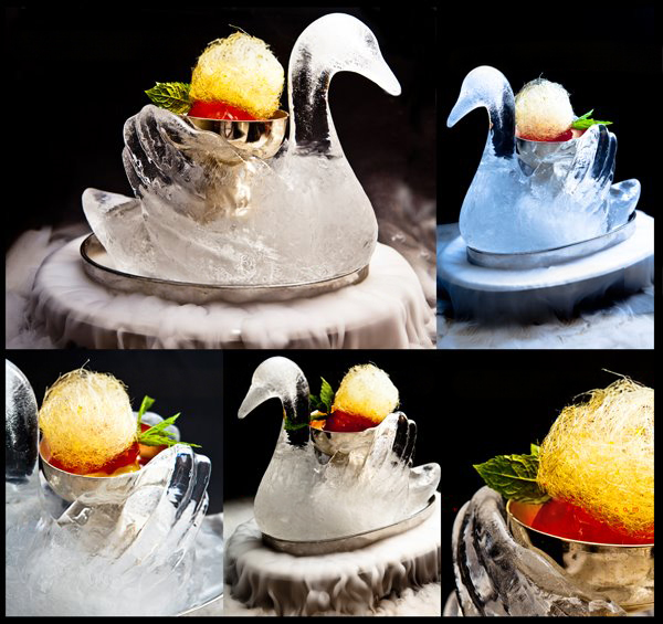 photo of Peach Melba Recreated at The Savoy Hotel by Martin Chiffers Executive Pastry Chef 2012